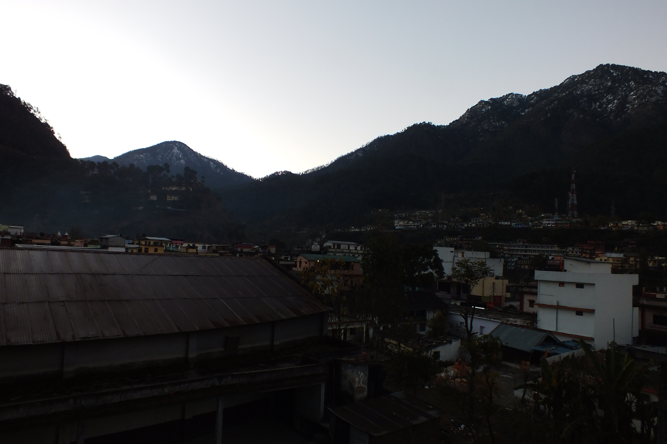 The morning at uttarkashi town.